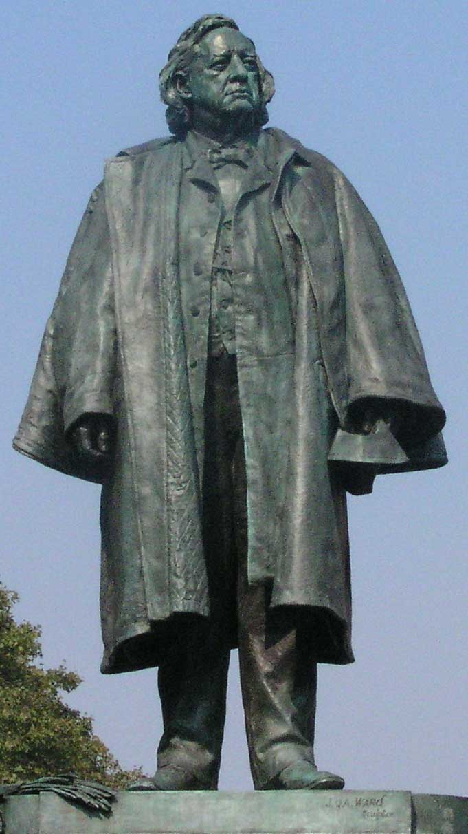 Looking north at Henry Ward Beecher statue, Brooklyn NY. Photograph shows a fragment of the entire sculptural group and omits important subsidiary components, namely 3 figures around the pedestal around Beecher--a young african american woman on the left and two white children on the right, as glimpsed in File:TowardCadmanEast.jpg and in more detail in File:HW Beecher monument SW jeh.jpg.